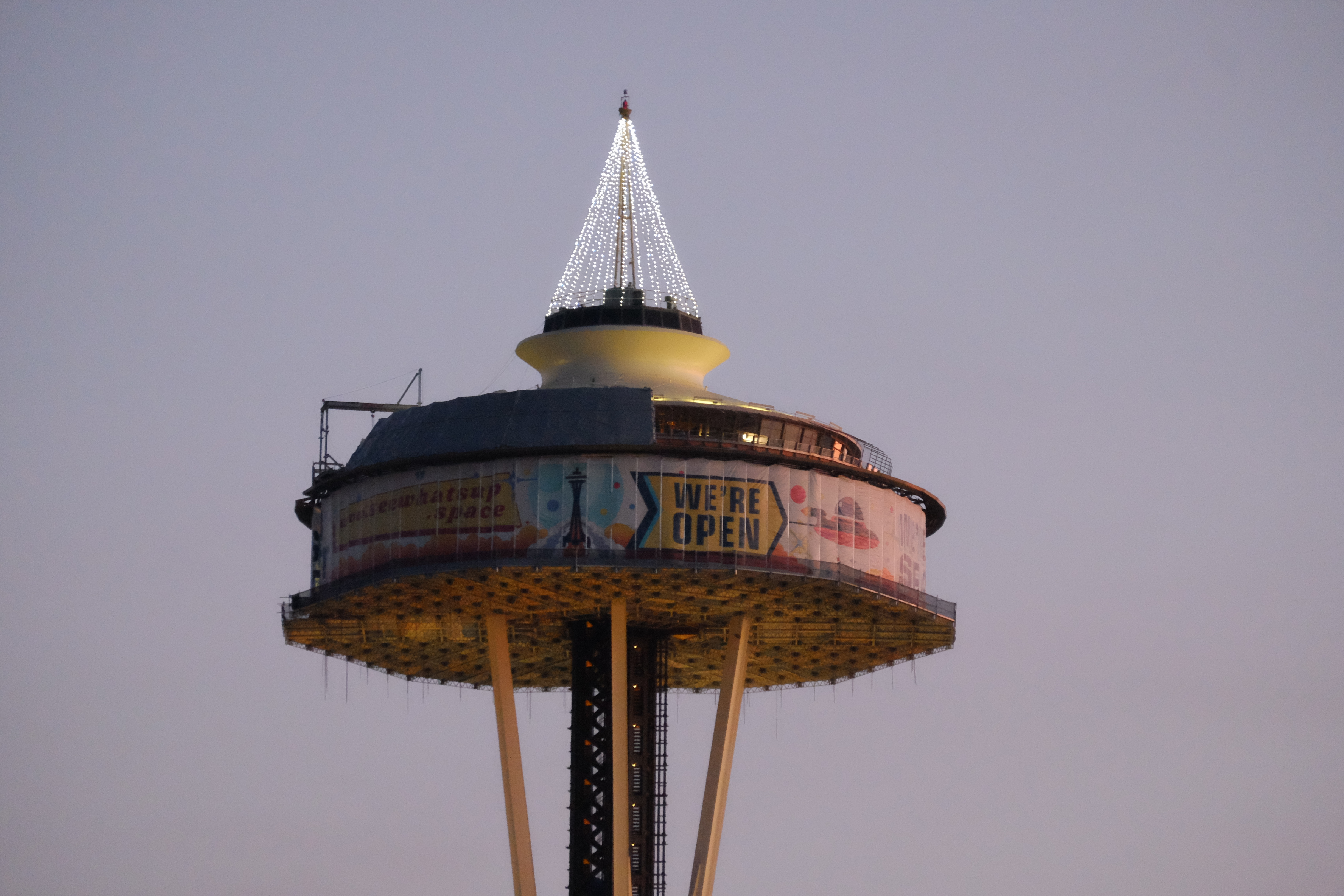 View from Queen Anne of scaffold on the Space Needle in Seattle, Washington during the renovation begun in June, 2017. Changes include glass-floors and unobstructed outer windows. Greenstone, Scott (June 12, 2017), “Space Needle to get its biggest renovation ever: glass floor, opened views, more elevators”, in The Seattle Times[1] Young, Bob (September 16, 2017), “Circular scaffolding goes up on Space Needle in preparation for makeover”, in The Seattle Times[2]